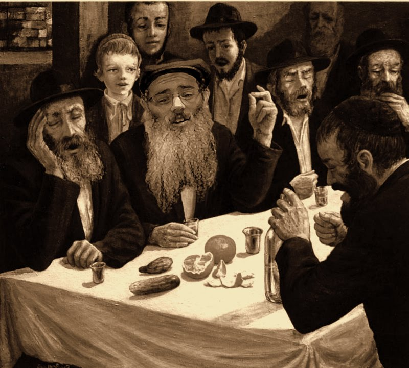 A picture of the Mashpia, Rabbi Avrohom Meir Sherr